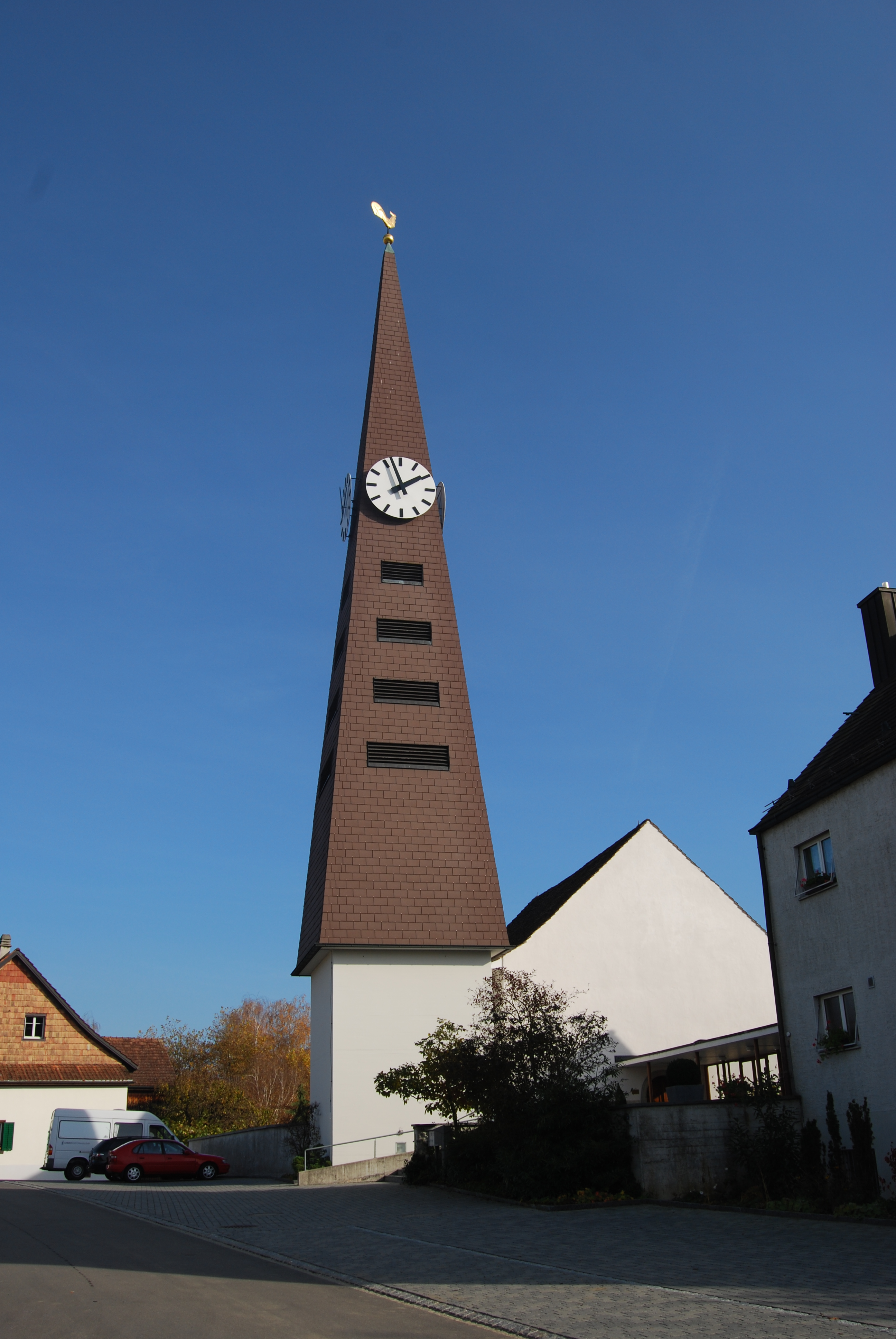 Church of Rickenbach, canton of Zürich, SwitzerlandEsperanto: Preĝejo de Rickenbach, Kantono Zuriko, Svislando